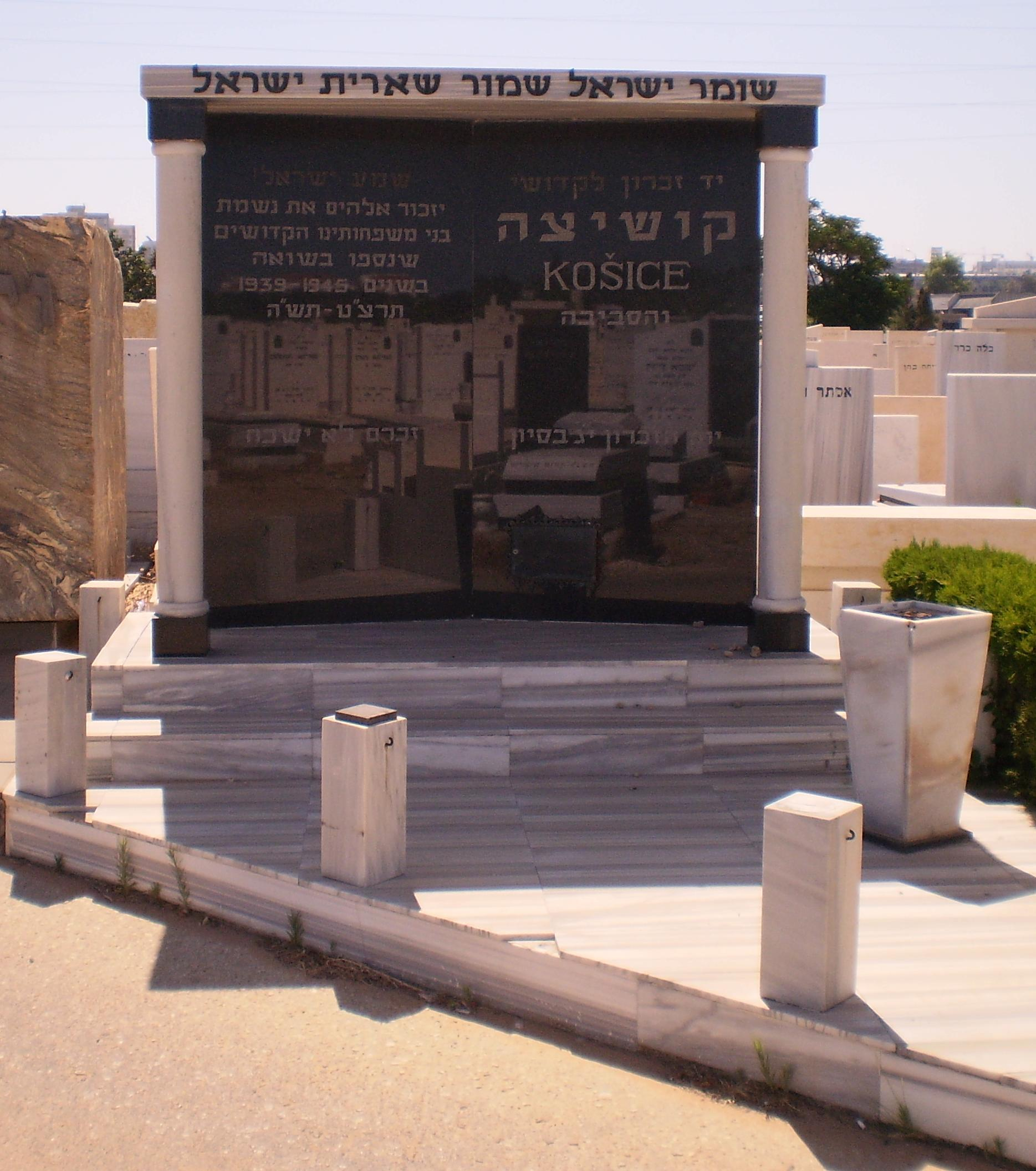 Košice Jewery Holocaust memorial at Holon Cemetery